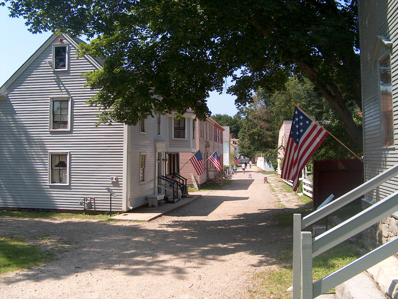 A view of Jefferson Street within the Strawberry Banke historic district, Portsmouth